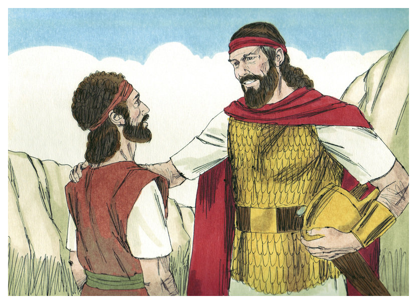 Biblical illustration of First Book of Samuel Chapter 26